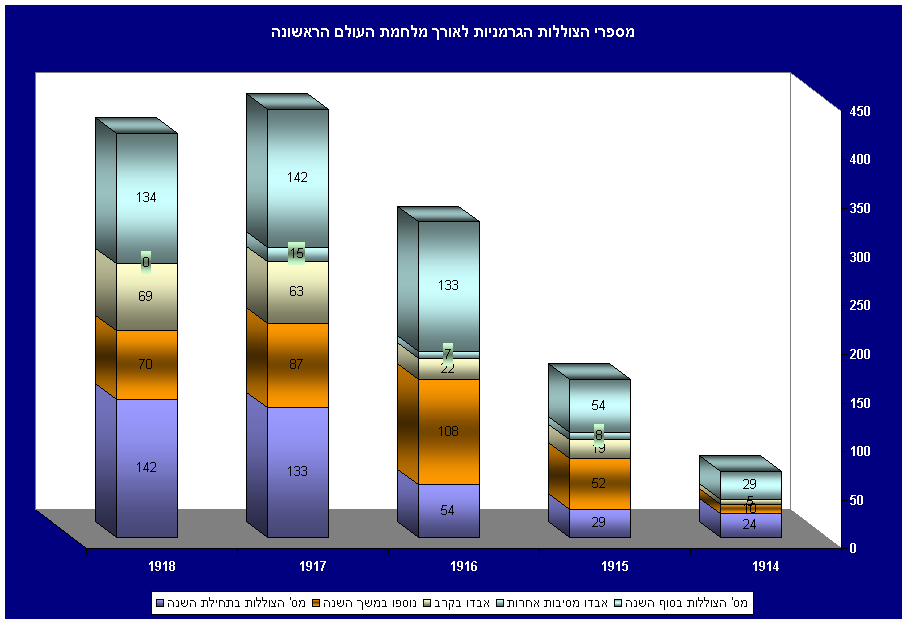 U-boat numbers throughout WW1. Compiled from Article in English Wikipedia. Captions in Hebrew.